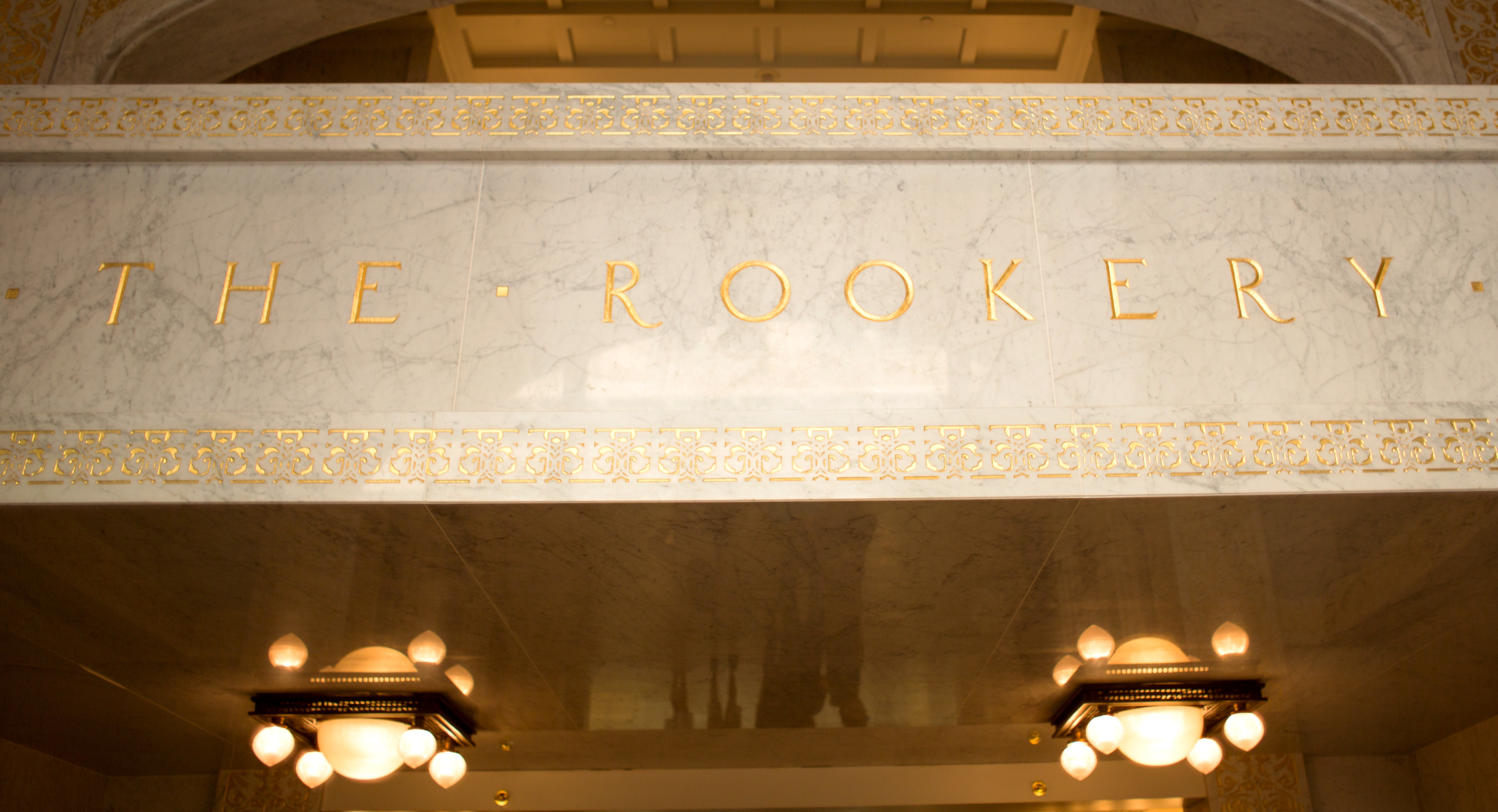 The Rookery, Chicago 2015-90